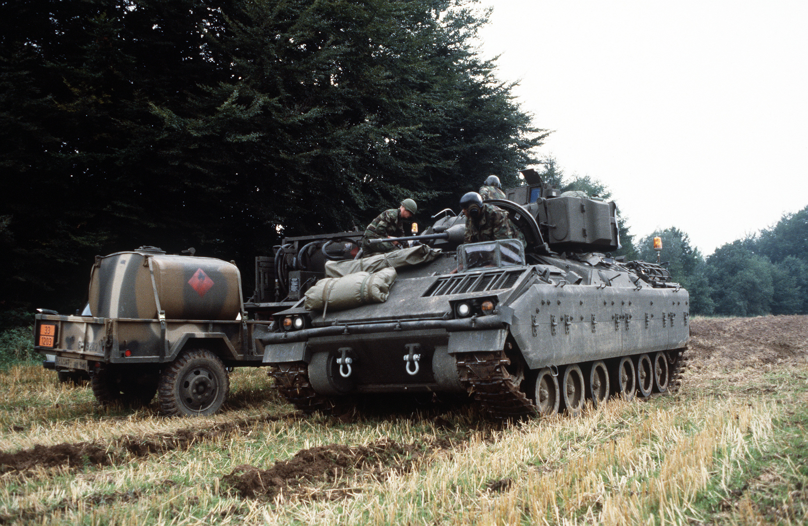 An M2 Bradley infantry fighting vehicle and infantrymen armed with M16A1 rifles refuels in the field during exercise REFORGER '85 in West Germany